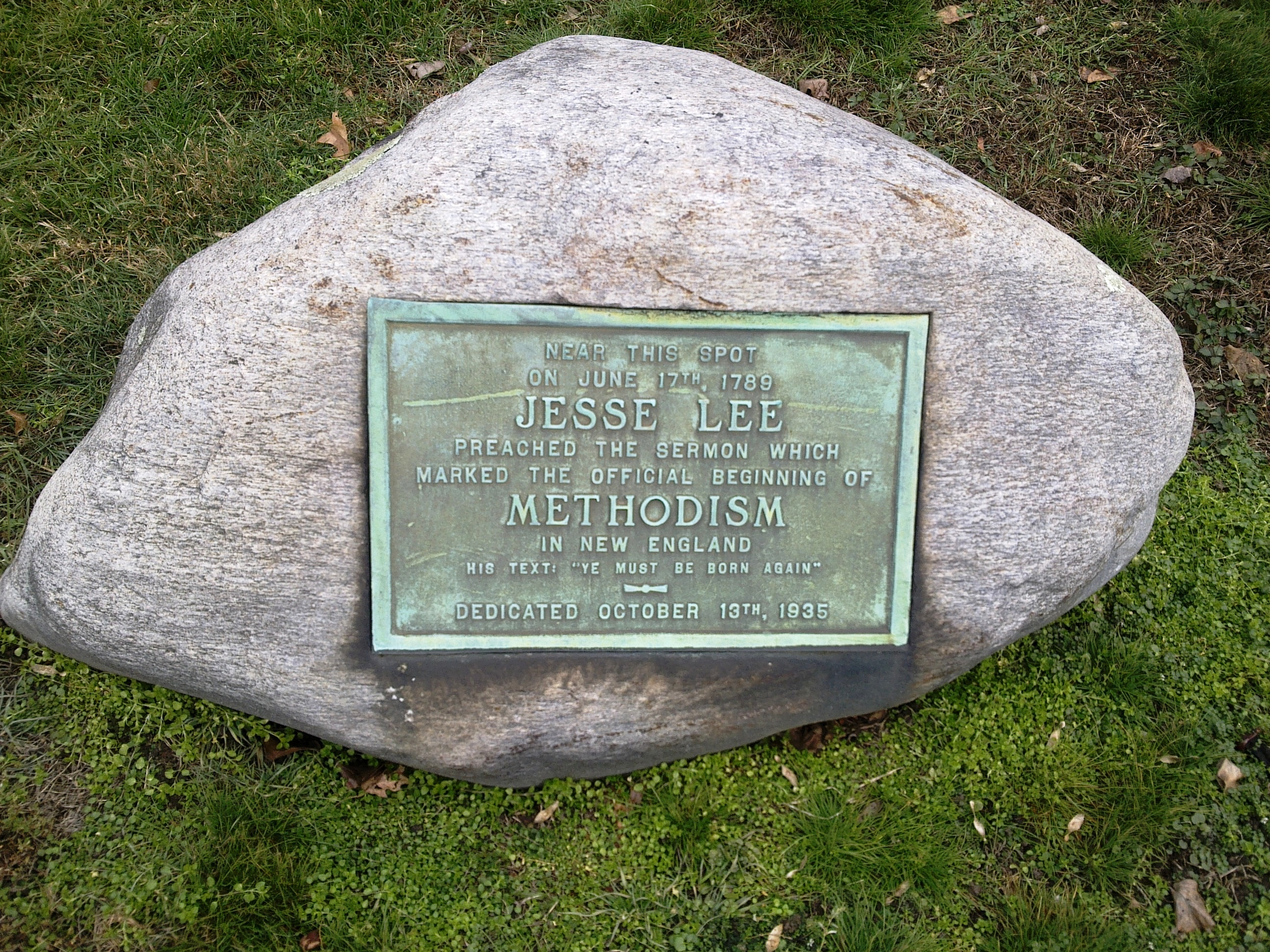 Rock with plaque attached